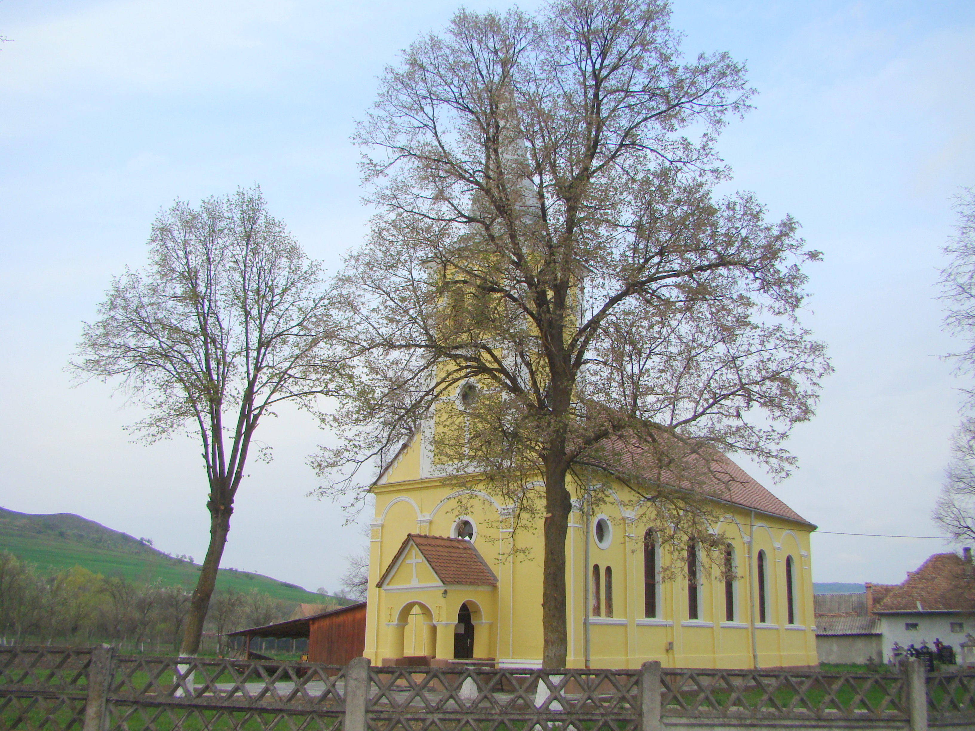 Orthodox church in Șoard, Mureș county, Romania